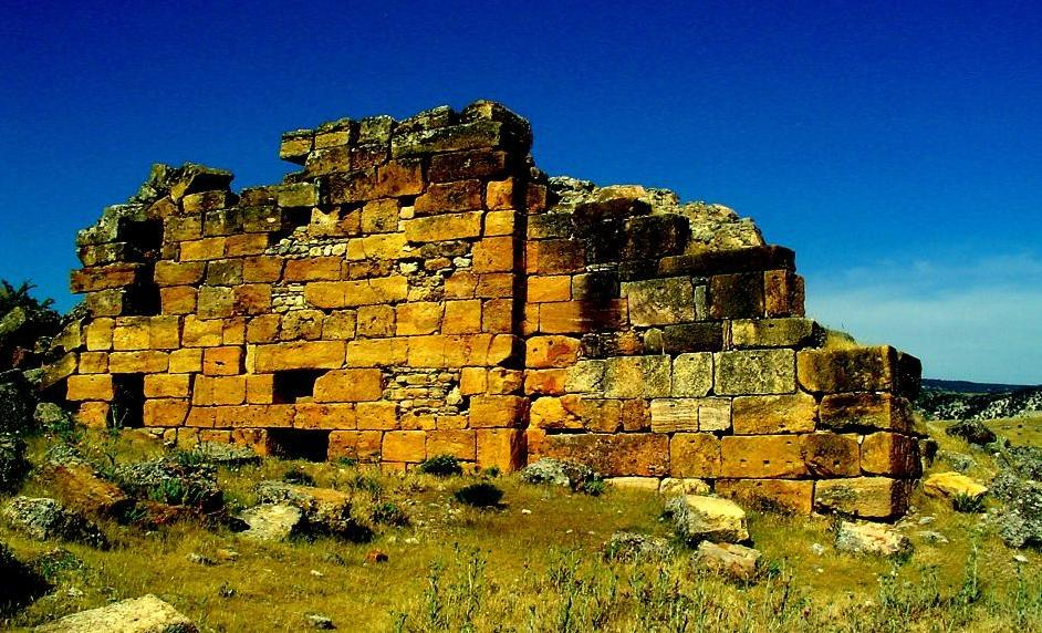 Ruins of Tripolis (Phrygia) near Buldan, en: Denizli Province, Turkey Licensing